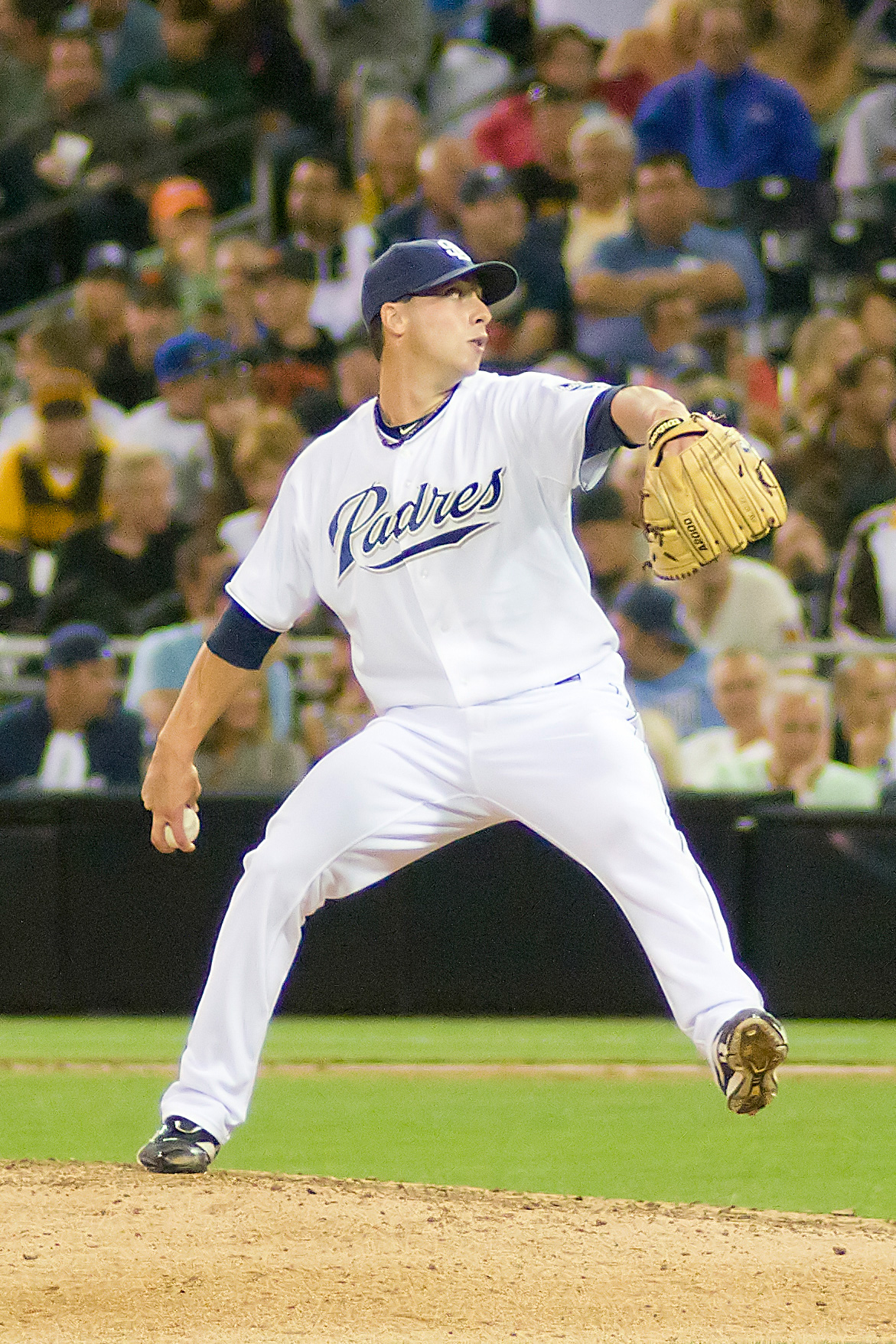 Anthony Bass